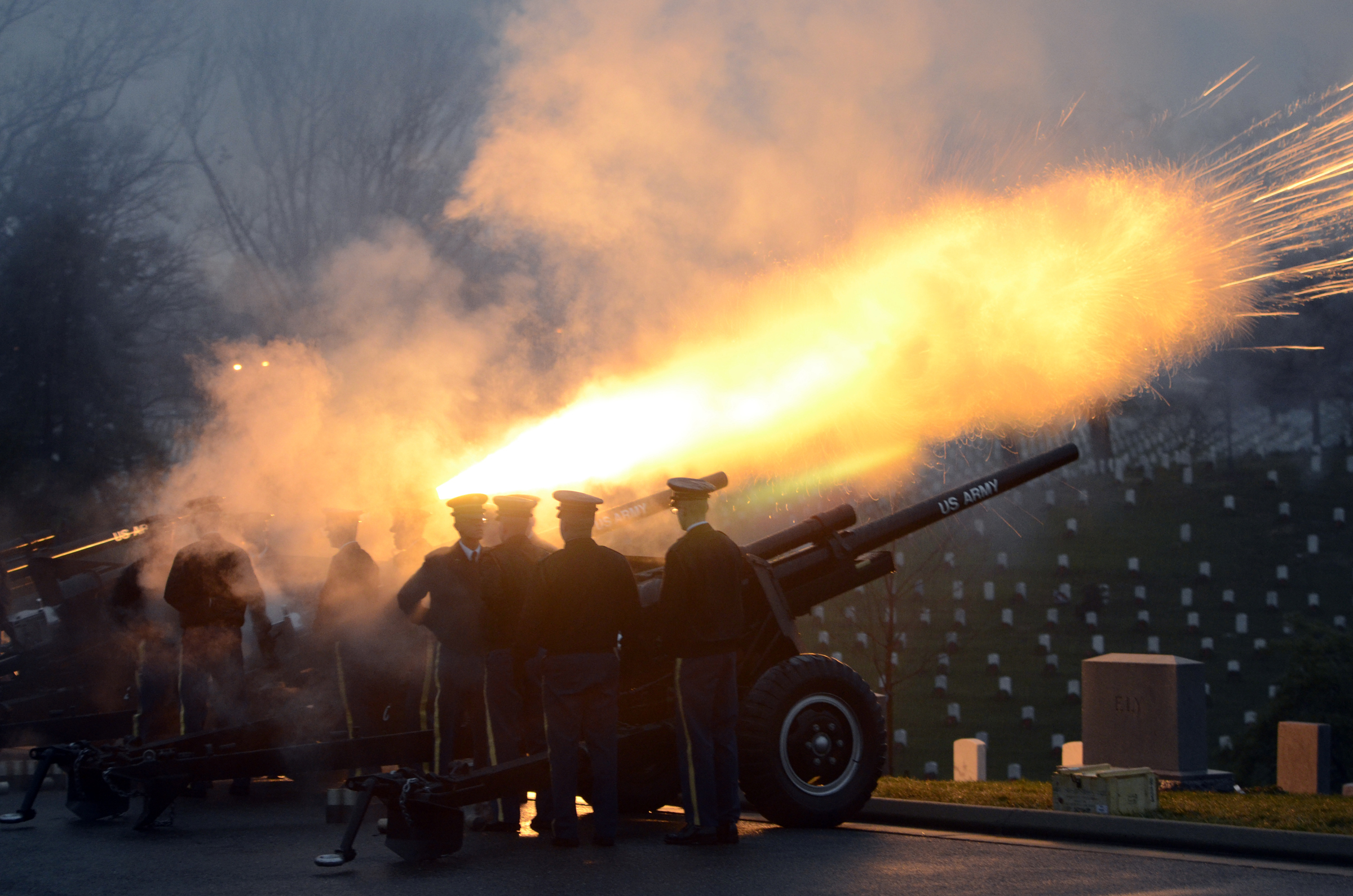 U.S. Soldiers with the Presidential Salute Battery, 3rd U.S. Infantry Regiment (The Old Guard) fire cannons during a training exercise at Arlington National Cemetery, Va., Jan. 15, 2013. The Soldiers were practicing for the upcoming presidential inauguration, set for Jan. 21, 2013. President Barack H. Obama was elected to a second four-year term in office Nov. 6, 2012. More than 5,000 U.S. Service members participated in or supported the inauguration.